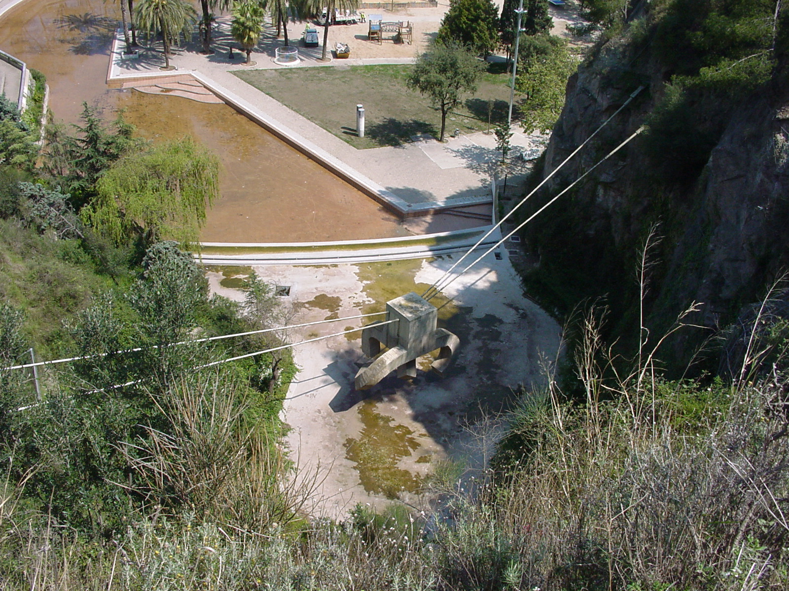 Looking down onto the Eduardo Chillida claw sculpture at Parc de la Creuta del Coll, Barcelona